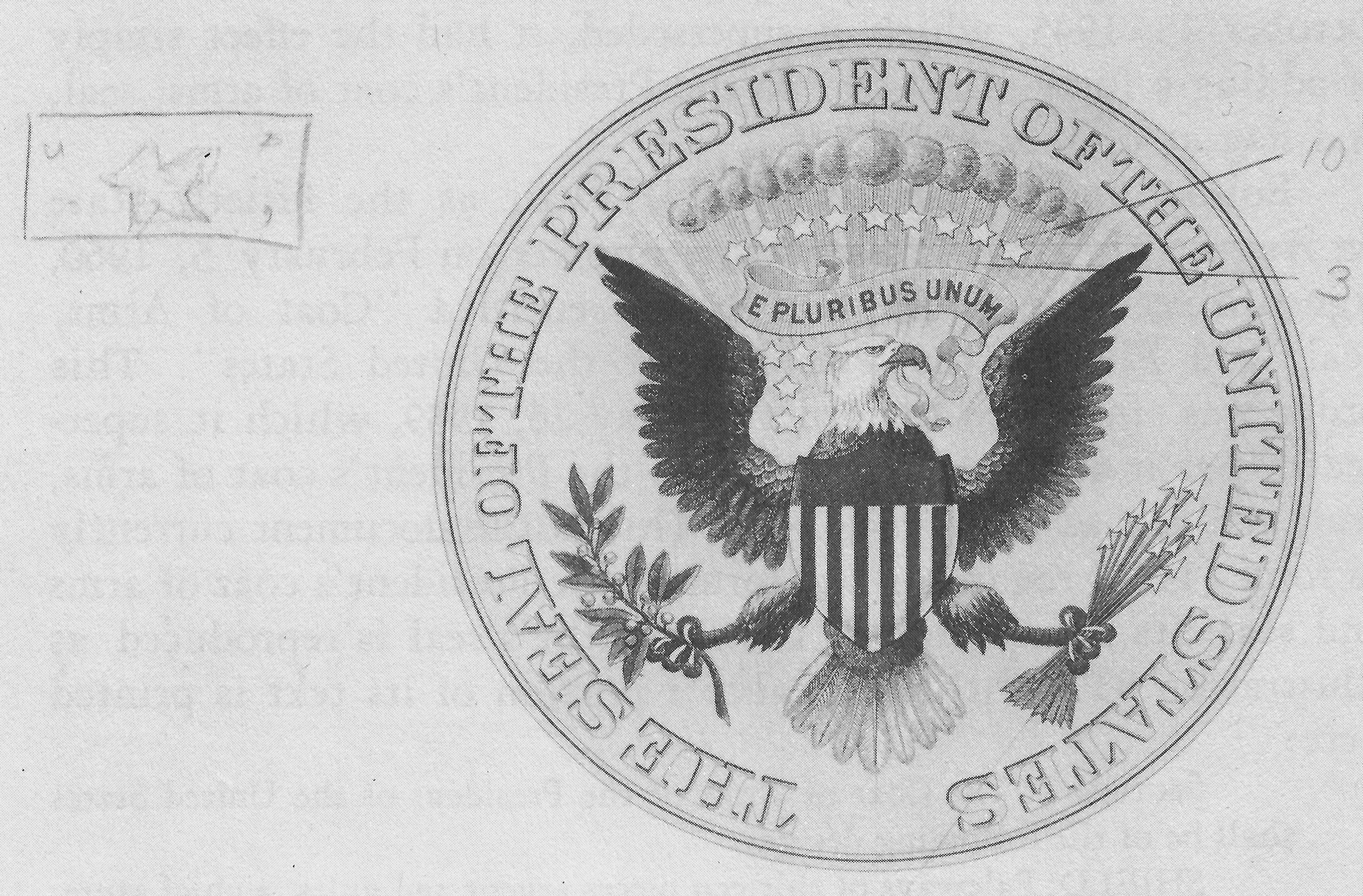 A print of the Seal of the President of the United States from about 1915. This is thought to be the one obtained by President Wilson (probably from the Bailey Banks & Biddle firm) and given to Commander Byron McCandless (probably on May 4, 1916) during discussions about redesigning the presidential flag, which happened later in 1916. The drawing at the left was a crude version of the forthcoming flag, with the presidential arms in the middle and four stars in each corner. Wilson also showed McCandless the 1901 Martiny plaque of the presidential arms, which was in the floor of the north entranceway of the White House at the time, and which arranged the stars as an arc of 10 with a small arc of 3 underneath, all above the scroll, which the annotation on the right refers to. This print became the basis for the design of the 1916 presidential flag, which (in 1945, after turning the eagle's head to its right) was itself the basis for the modern version of the seal. The actual presidential seal was not changed to use this design until the 1945 change; this was just an artistic interpretation of the then-existing seal.